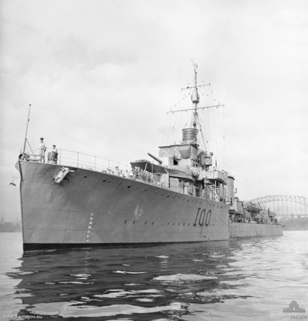 Photograph of destroyer HMAS Stuart in her later configuration as an escort destroyer with A, Q and Y 4.7 inch guns removed in favour of anti-aircraft armament and radar equipment.